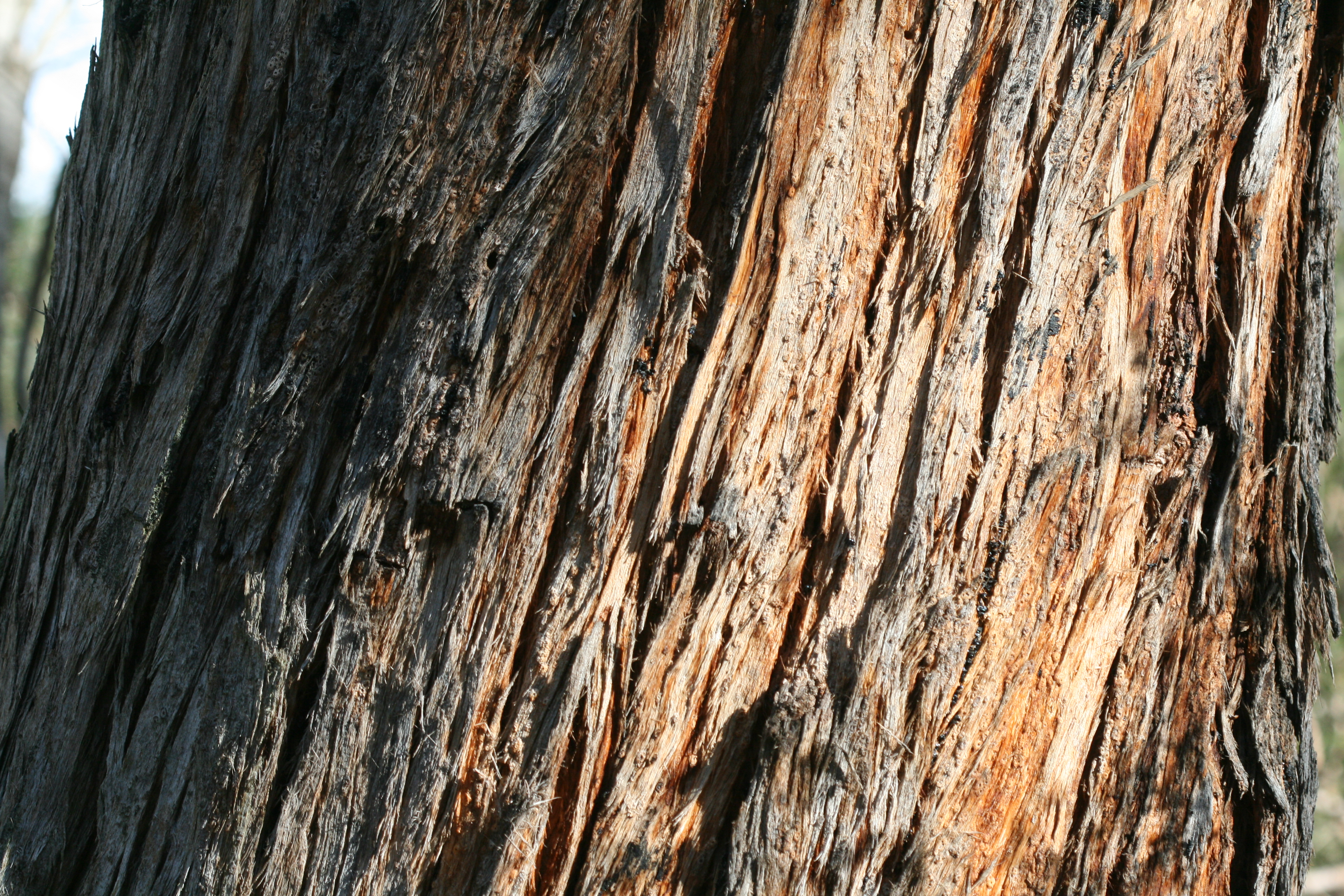 Messmate Stringybark (Eucalyptus obliqua) at Blackburn Lake, Box Hill, Melbourne, Victoria, Australia. Photographed on 30 May 2009.